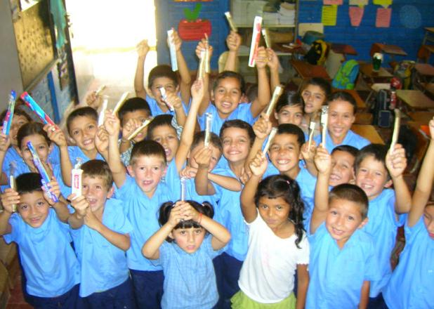 Salvadorian Children in La Peña, Metapan, El Salvador, Dental Campaign